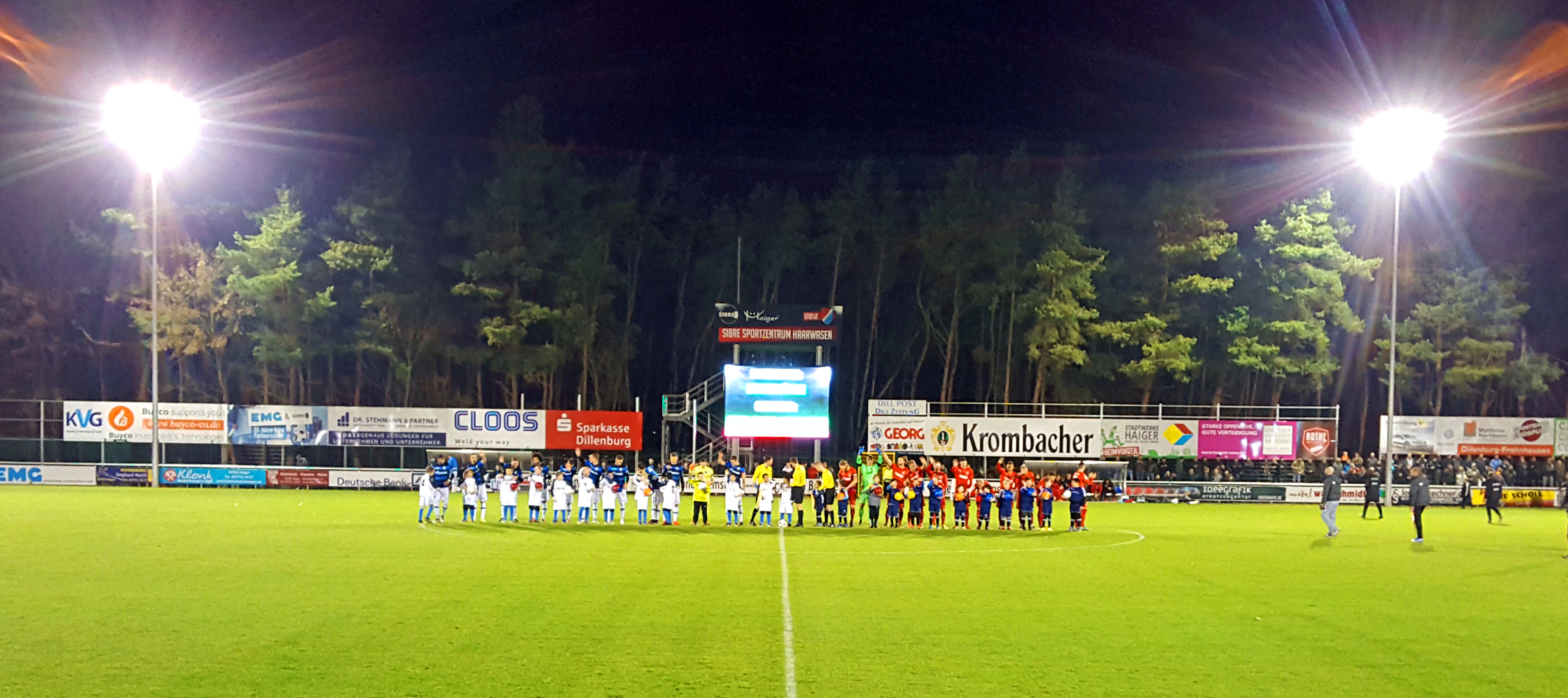 Flutlichtspiel im SIBRE-Sportzentrum Haarwasen in Haiger